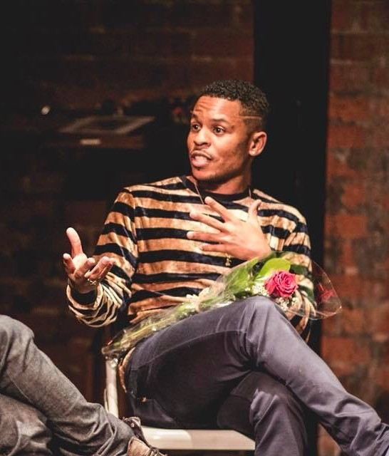 Yolo Akili reminding his fellow panelists not to neglect their own health while working to help others.